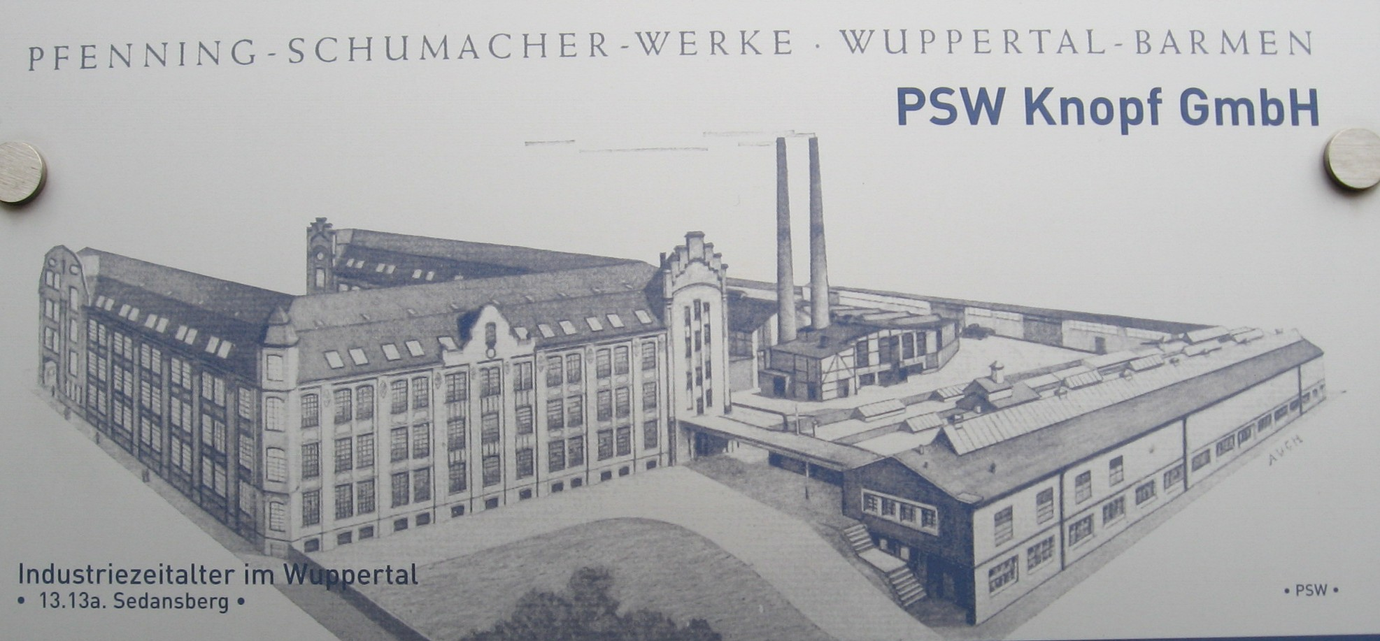 View from Alarichstraße to the industrial building "PSW-Knopffabrik" at Wuppertal